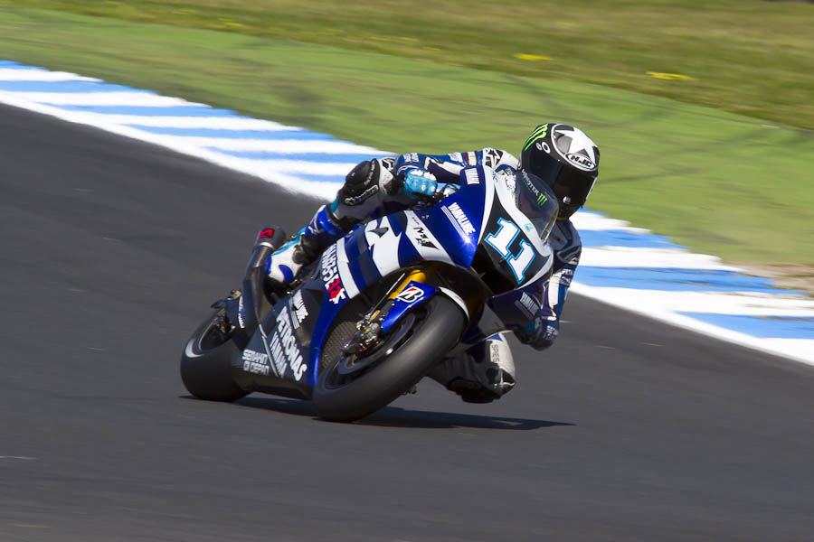 Ben Spies on a Yamaha and the 2011 Australian motorcycle Grand Prix at Phillip Island. Spies did not compete in the race after a fall in qualifying.